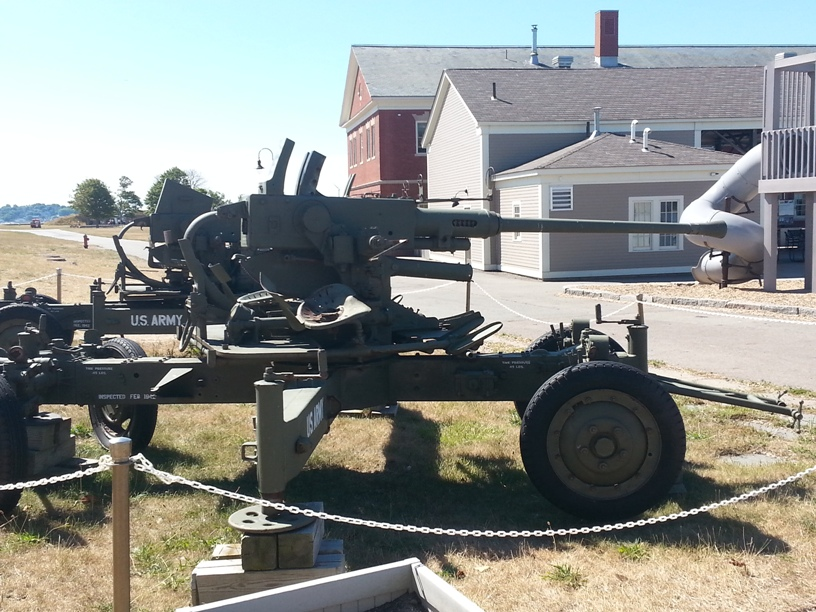 Two 40 mm guns M1, US Army type, at Fort Warren, MA, USA